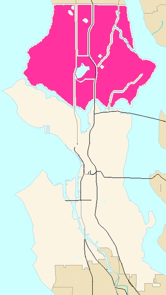 Locator map, highlighting the portion of Seattle, Washington north of the Lake Washington Ship Canal.